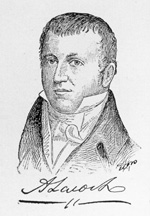 Credited to the U.S. Senate Historical Office